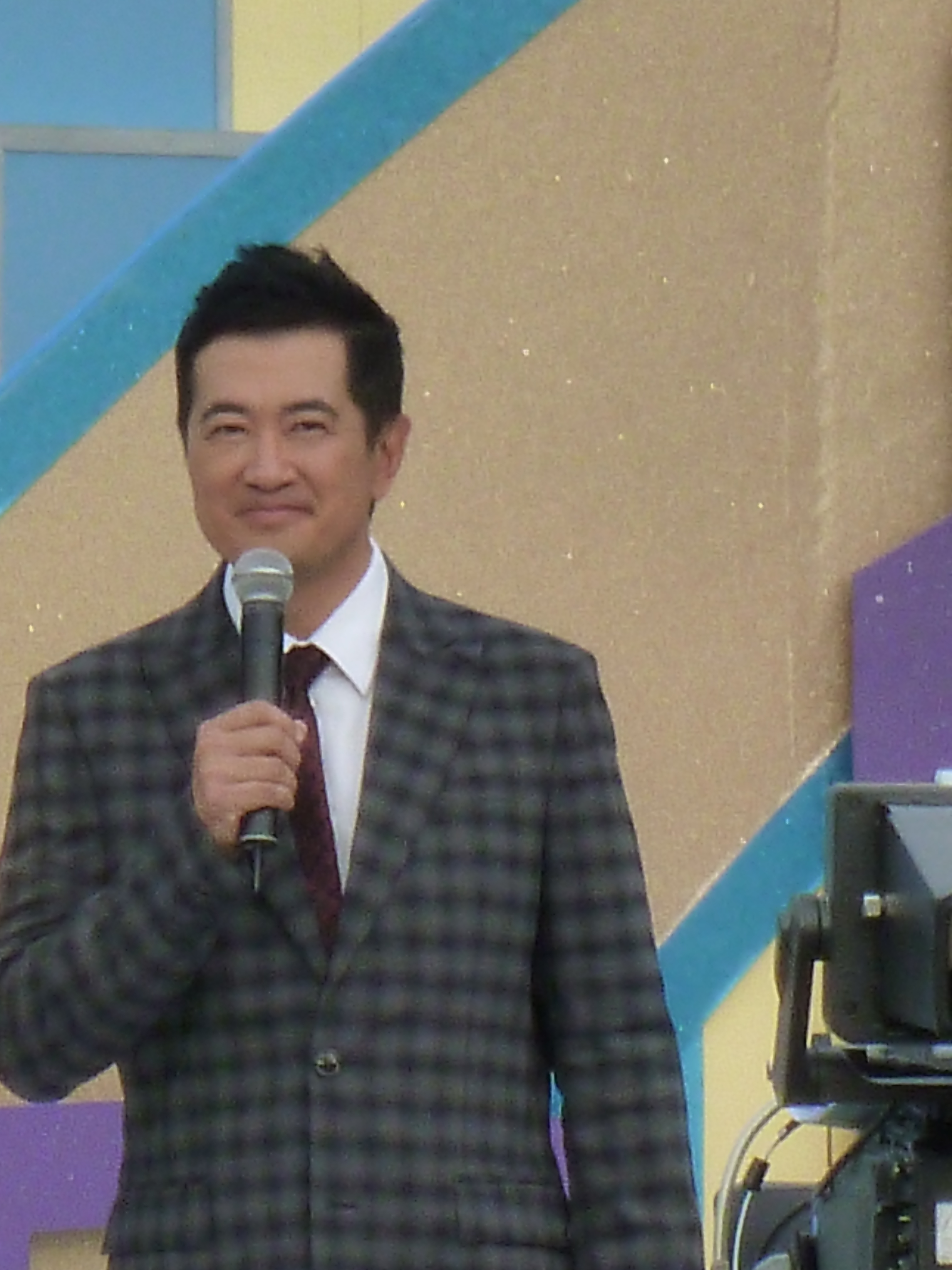 Patrick Dunn 中文（香港）: 鄧梓峰 (24 Nov 2013, 荔枝角公園一期足球場)